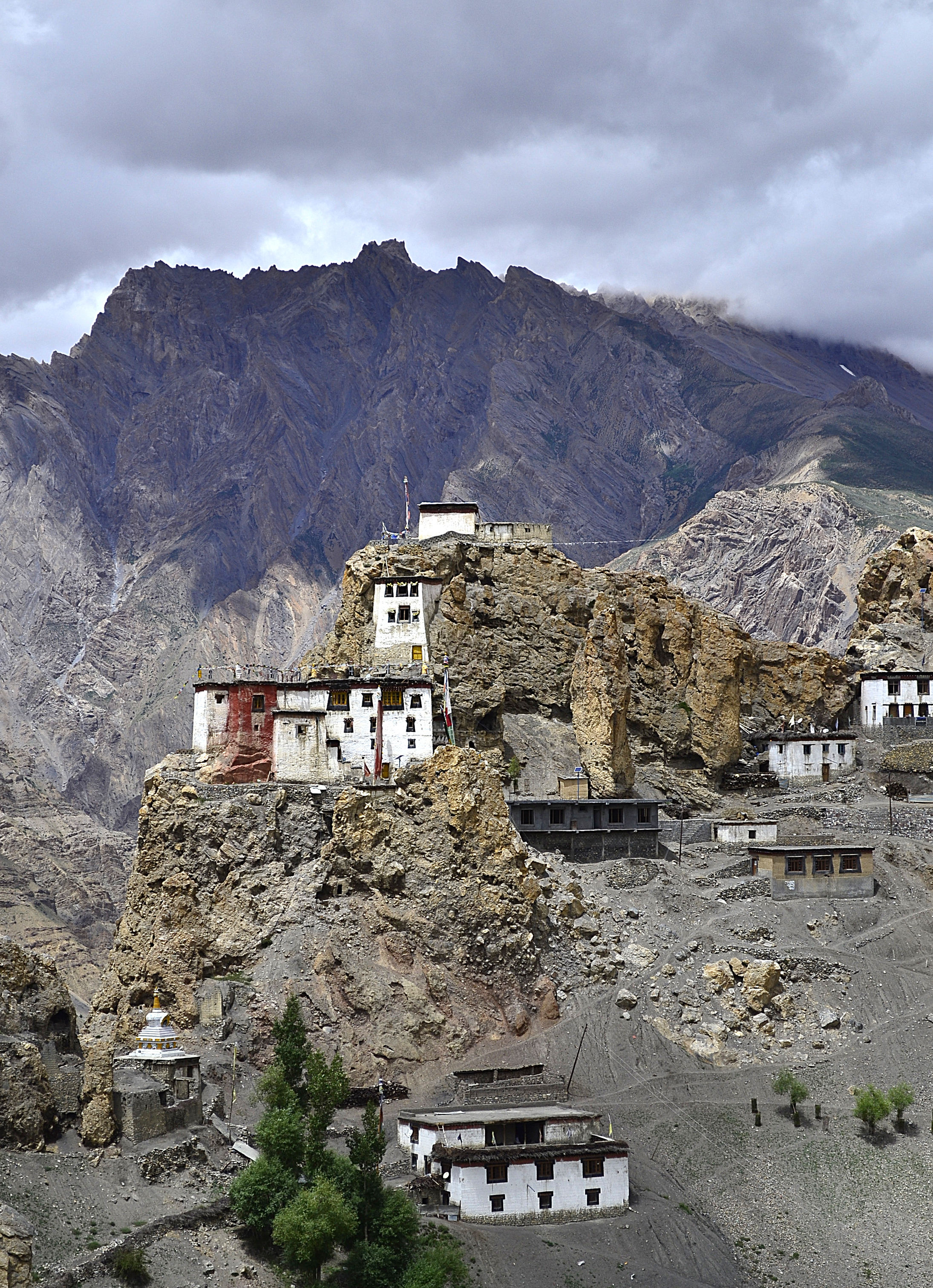 Old Dhankar Gompa..as seen from The New Monastery